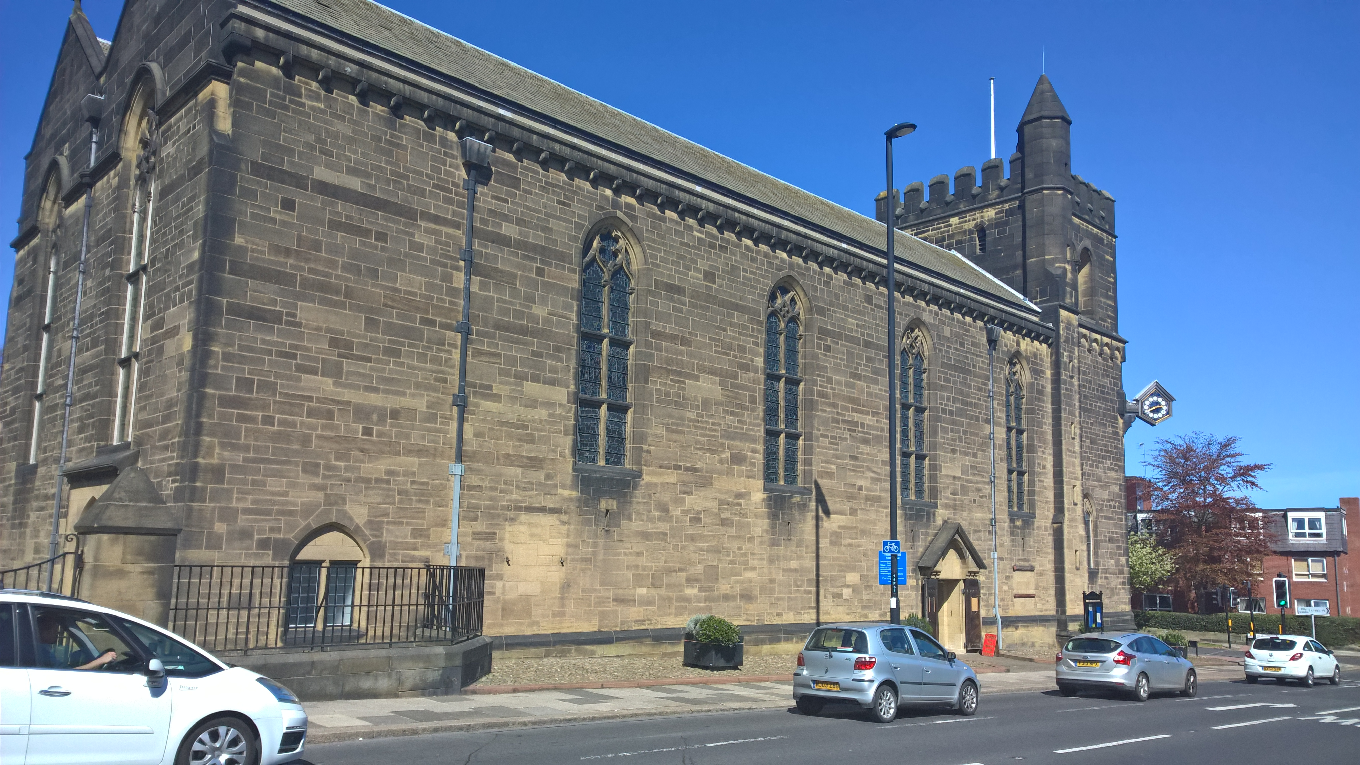 Arts & Craft church of 1931 by E. E. Lofting paid for by Sir James Knott in memory of his two sons (James and Basil) killed in the First World War.